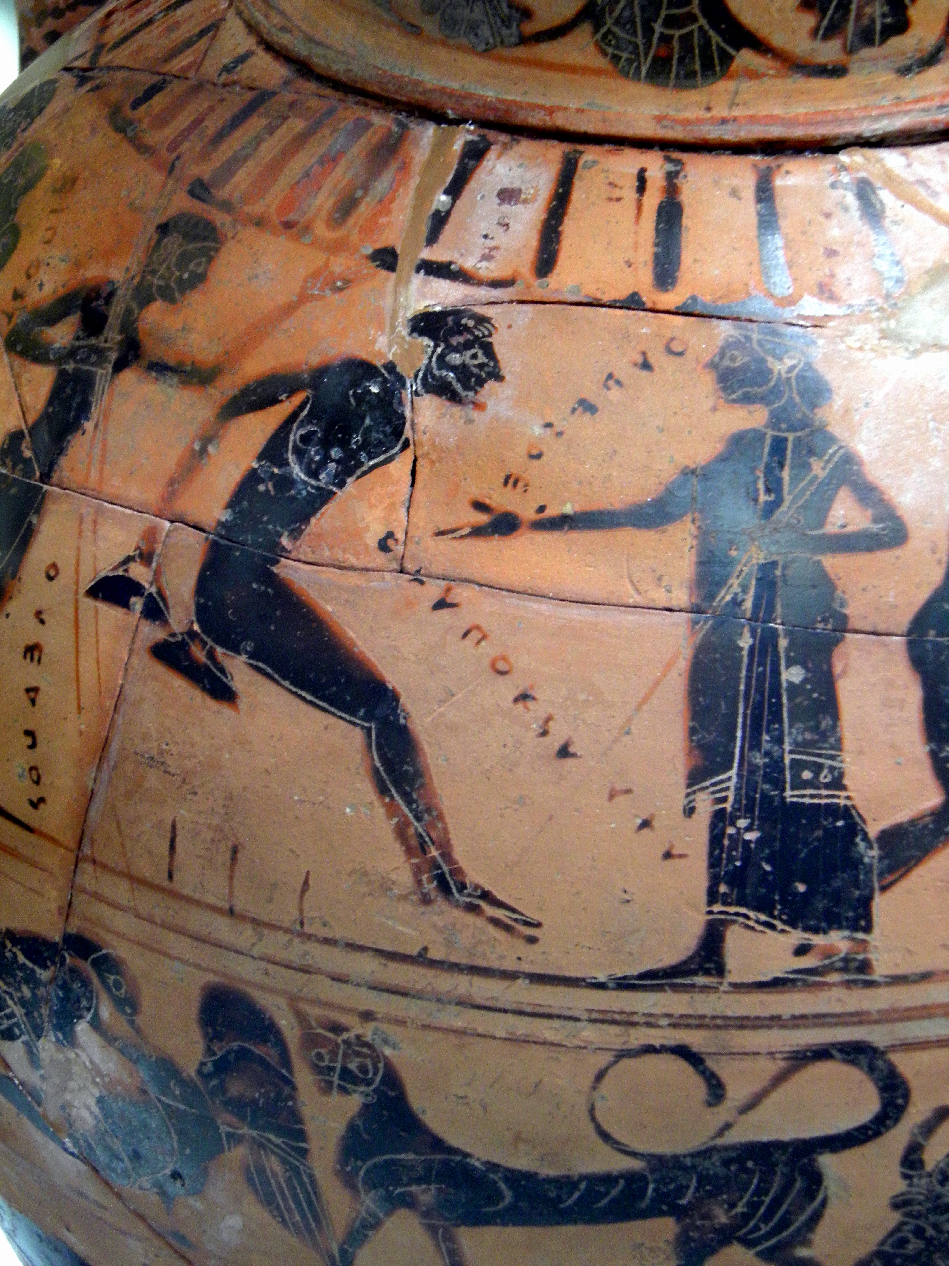 This vase has one of the best surviving depictions of the long-jump event at the ancient Olympic Games. The athlete is shown on the shoulder of the vase, and is captured in mid-jump, while to the right a trainer urges him on. Beneath the jumper are pegs, which may record his previous jumps or those of other athletes. In the ancient long jump athletes carried weights that were swung forward on take-off and back just before landing. It’s often said that the weights increased the length of the jump, but it is more likely that they were there for use as a deliberate handicap. Most ancient sport developed as a means of training for warfare, and this exercise would simulate a jump carrying kit. Skill in this sport would be useful for crossing a stream or ravine. The vase has other scenes related to ancient sporting events, including a discus thrower. To the jumper’s left there is an athlete holding what are possibly javelins and two wrestlers are also shown. The other side of the amphora shows warriors fighting over the body of a fallen comrade, while below there are friezes of animals and mythological beasts, including sirens, sphinxes, panthers, swans, goats, cocks and rams.